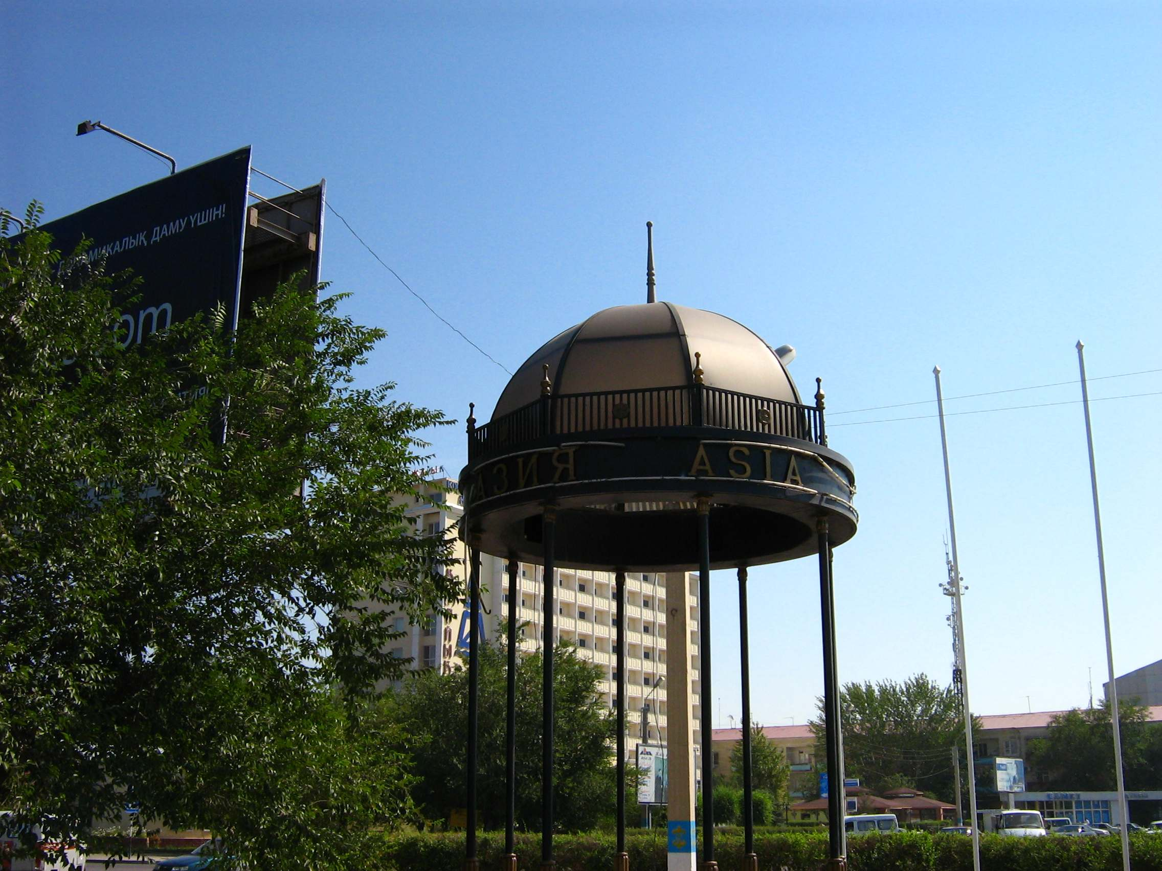 Template:Atyrau city (Kazakhstan), the "Asia" sign